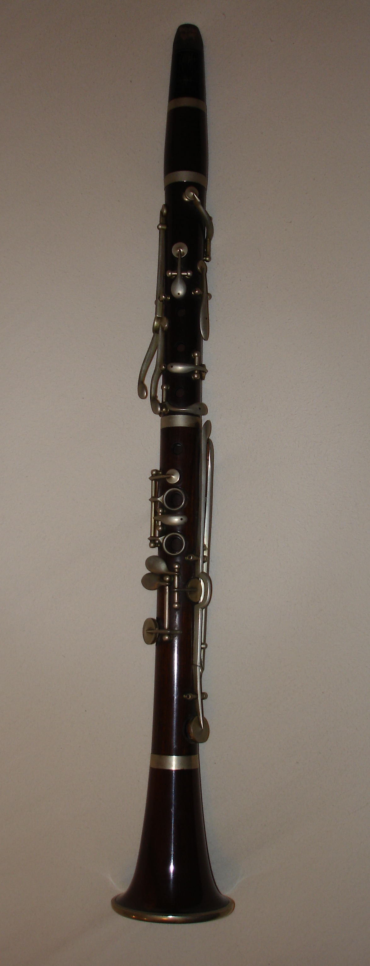 Albert (simple)-system Rosewood Clarinet, circa late 19th Century.